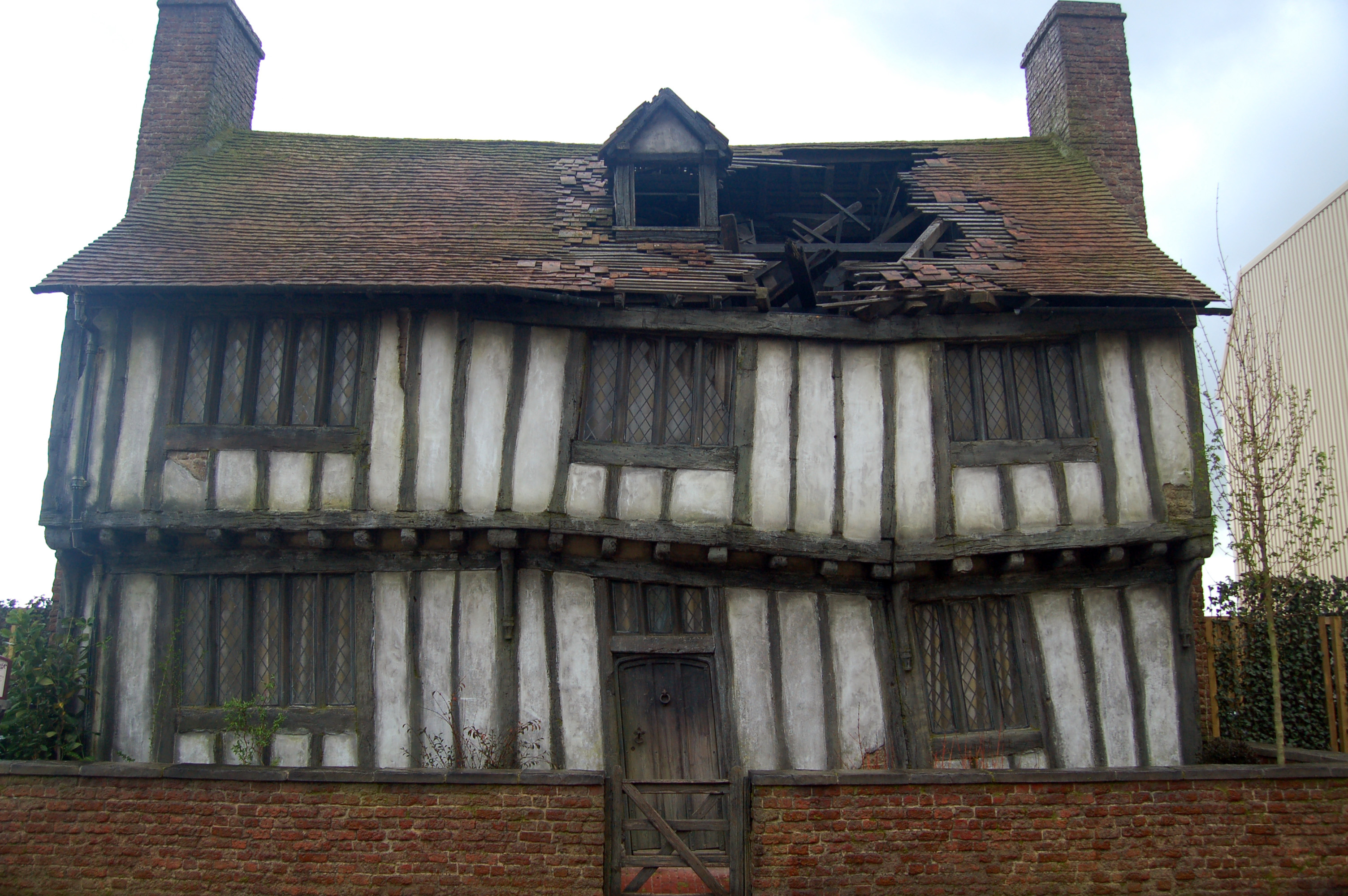 Potter house in Godric's Hollow